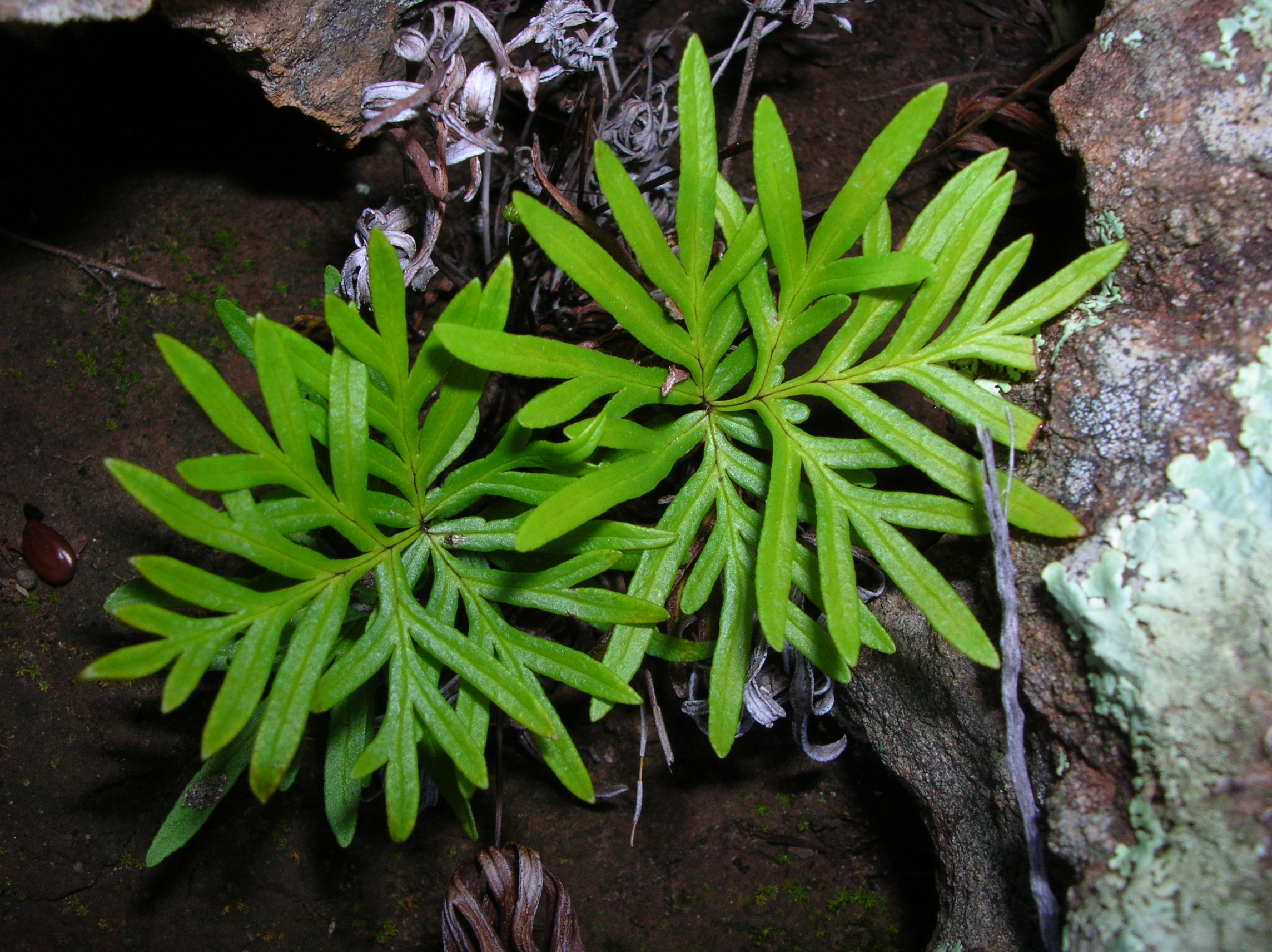 Doryopteris decipiens (habit). Location: Maui, Lihau